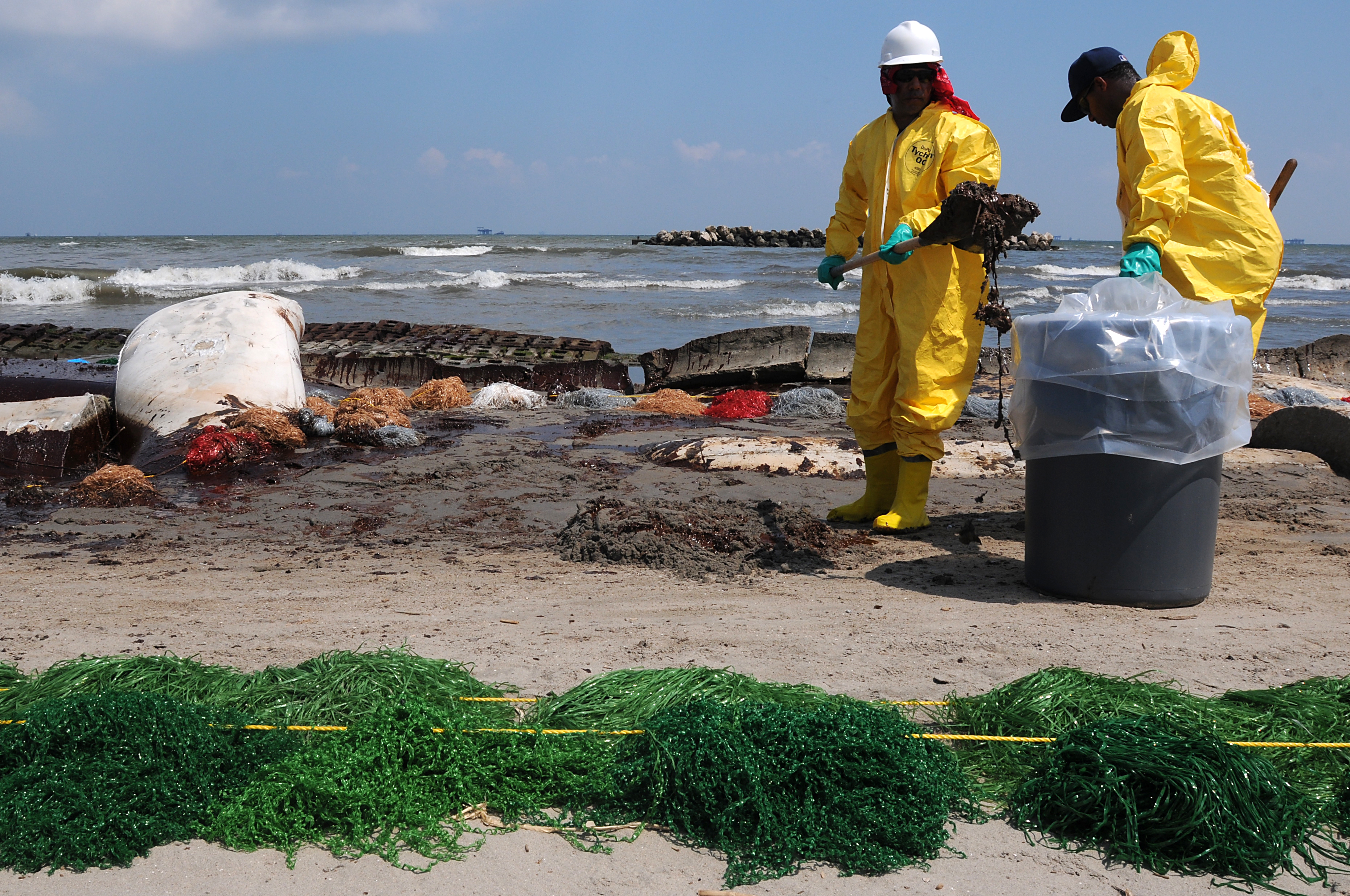 Health, safety and environment (HSE) workers contracted by BP clean up oil on a beach in Port Fourchon, La., May 23, 2010. Hundreds of contracted HSE workers are cleaning up oil from the Deepwater Horizon oil spill, which began washing up onto area beaches a month after the drilling unit exploded.